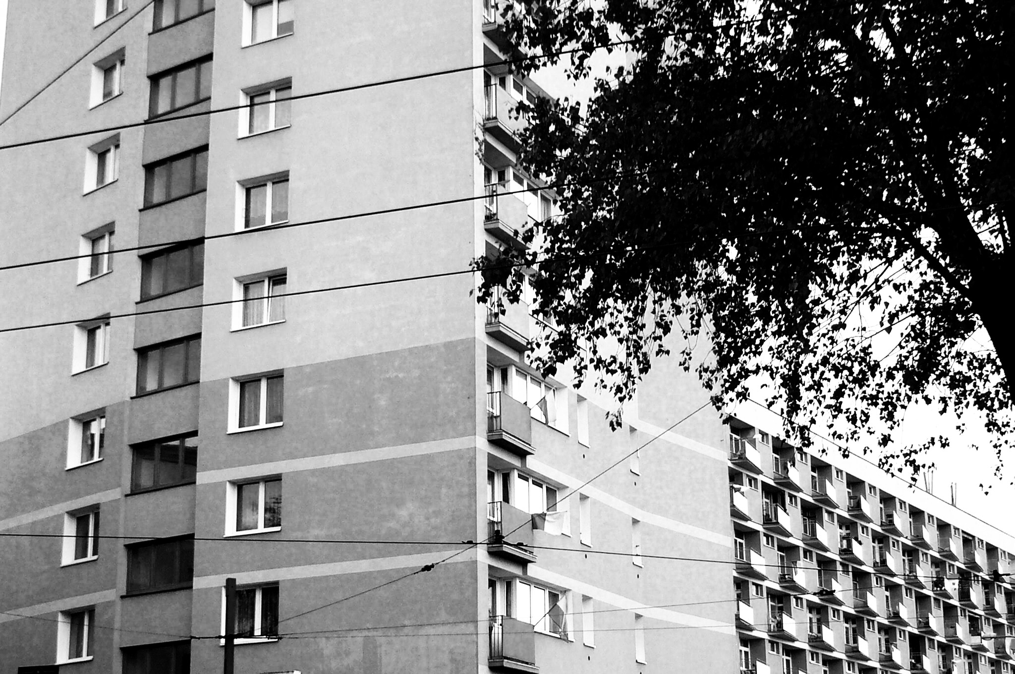 Warynski Pleace, Poznan.